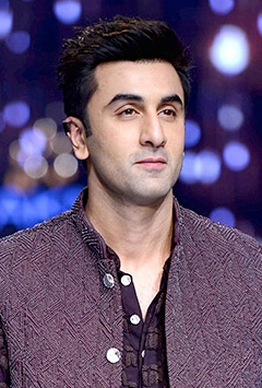 Indian actor Ranbir Kapoor at the Lakme Fashion Week in 2016